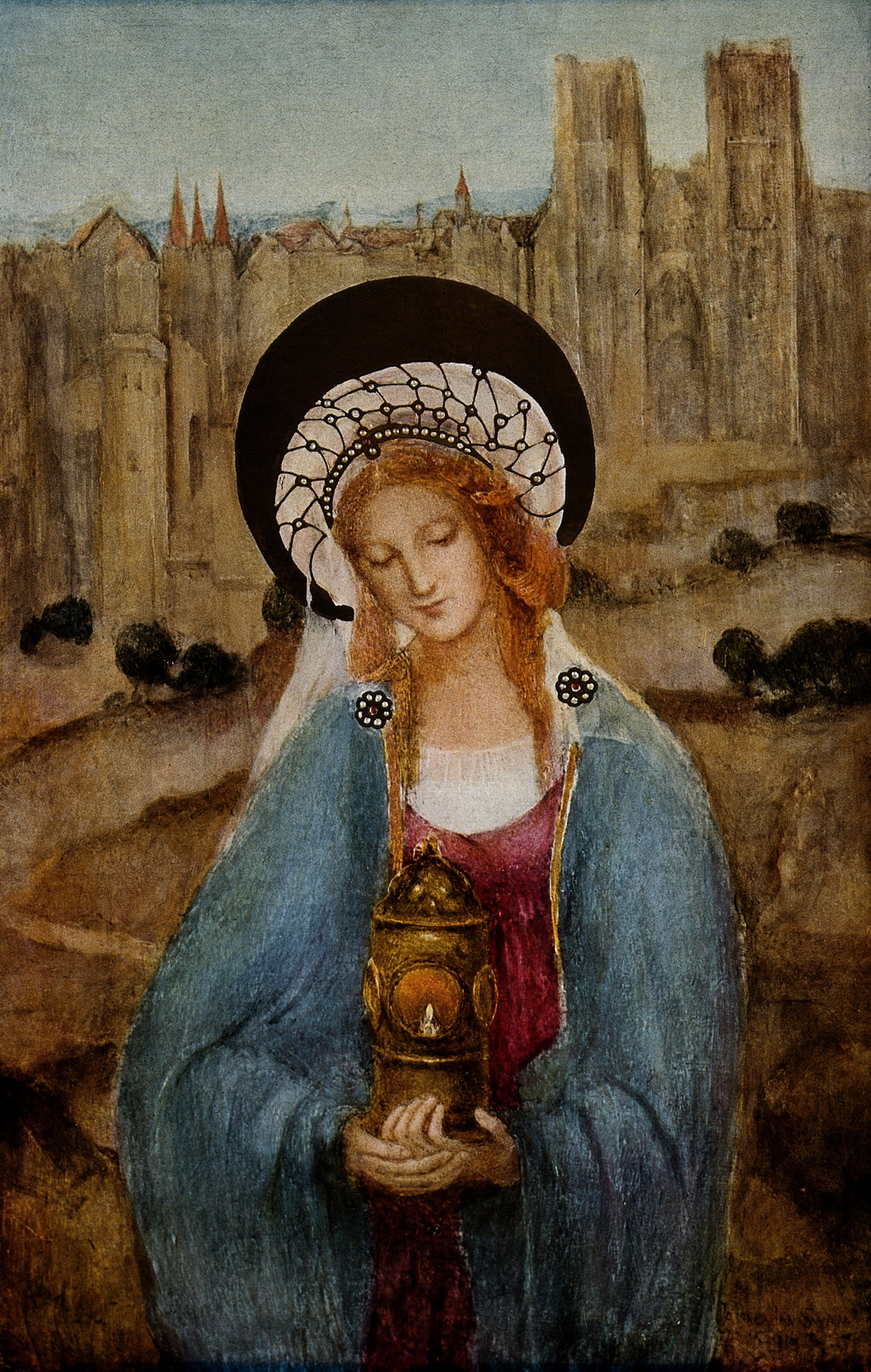 Saint Gudule. Reproduction of watercolour by A.M. Surauu. Iconographic Collections Keywords: name